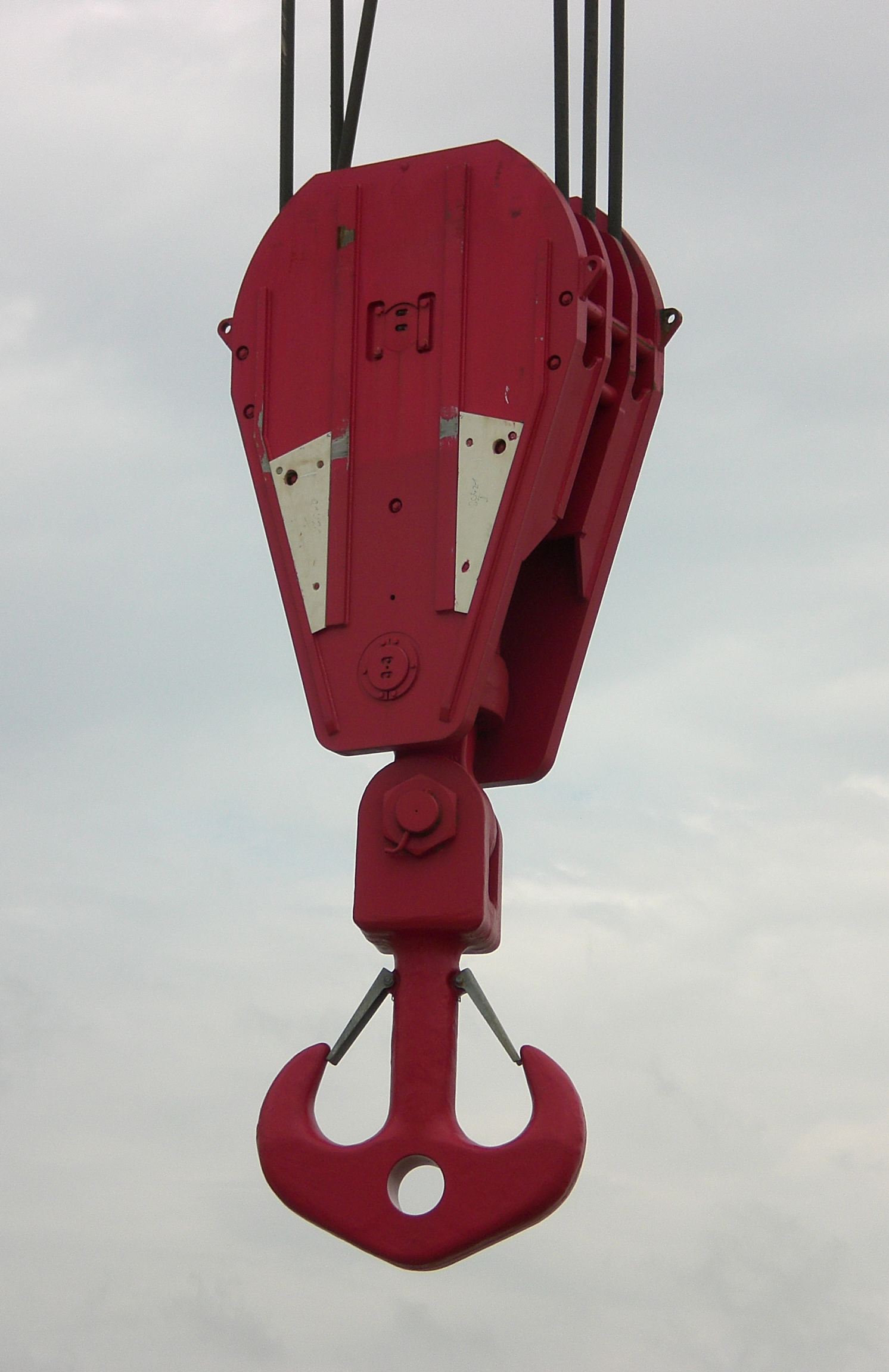 Hook of a 700t crane